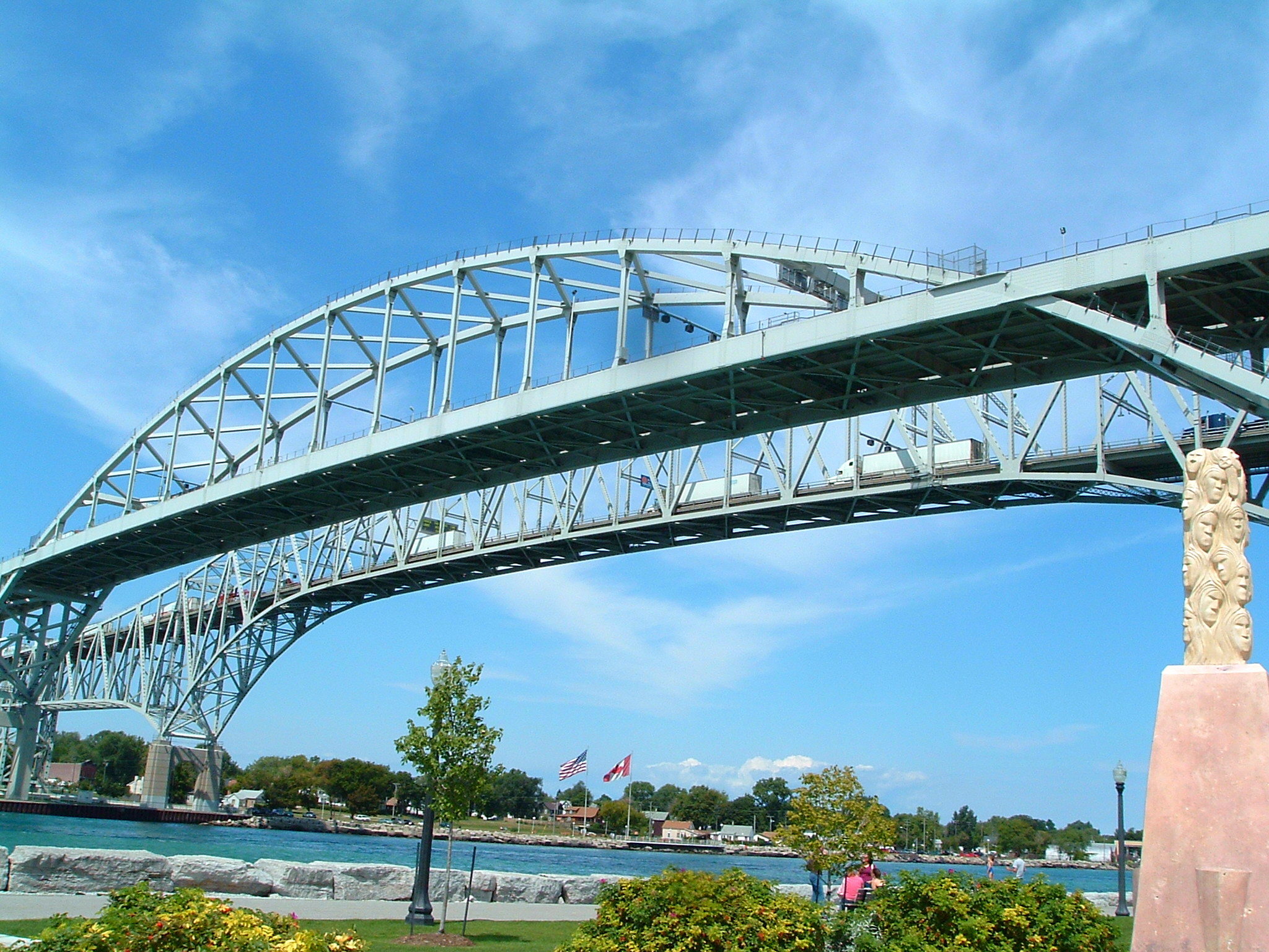 Blue Water Bridge in Sarnia, Ontario